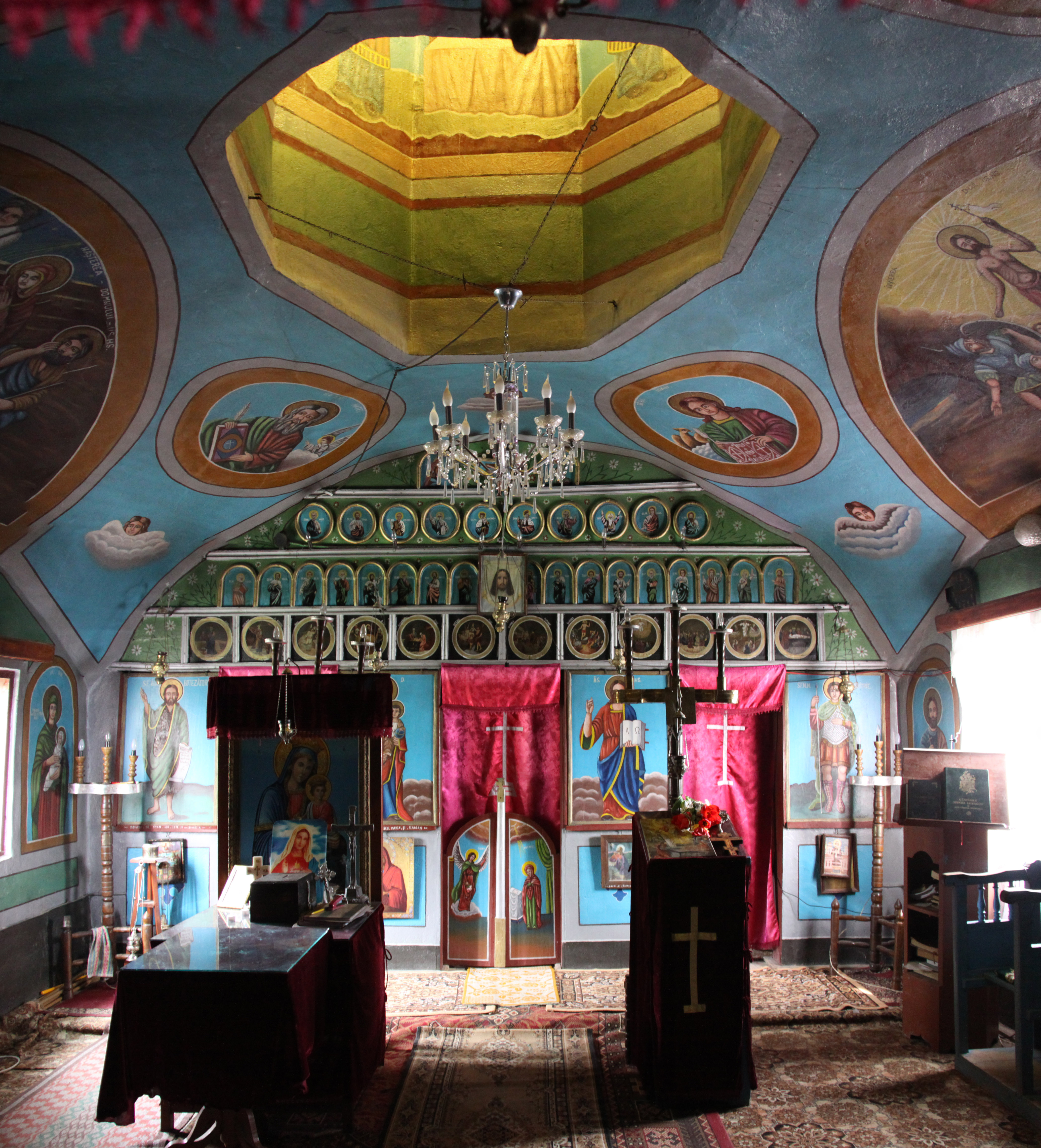 Dimuleşti, Vâlcea county, Romania: the wooden church.